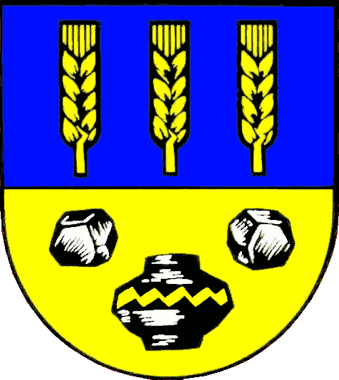 Coat of arms of the municipality Steinfeld in Schleswig-Holstein